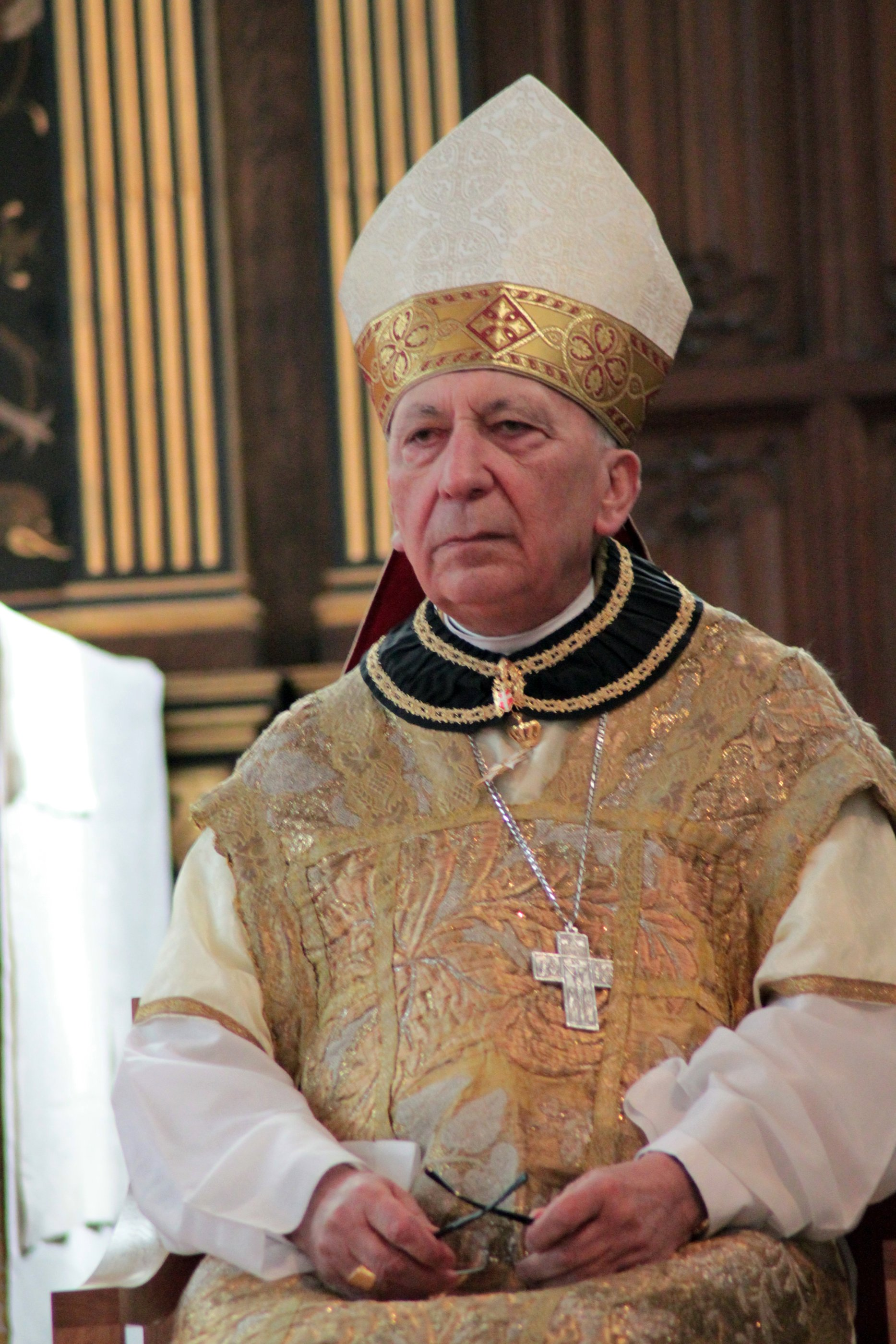 Archbishop Angelo Acerbi, Prelate of the Sovereign Military Order of Malta in Merton College Chapel, Oxford, UK